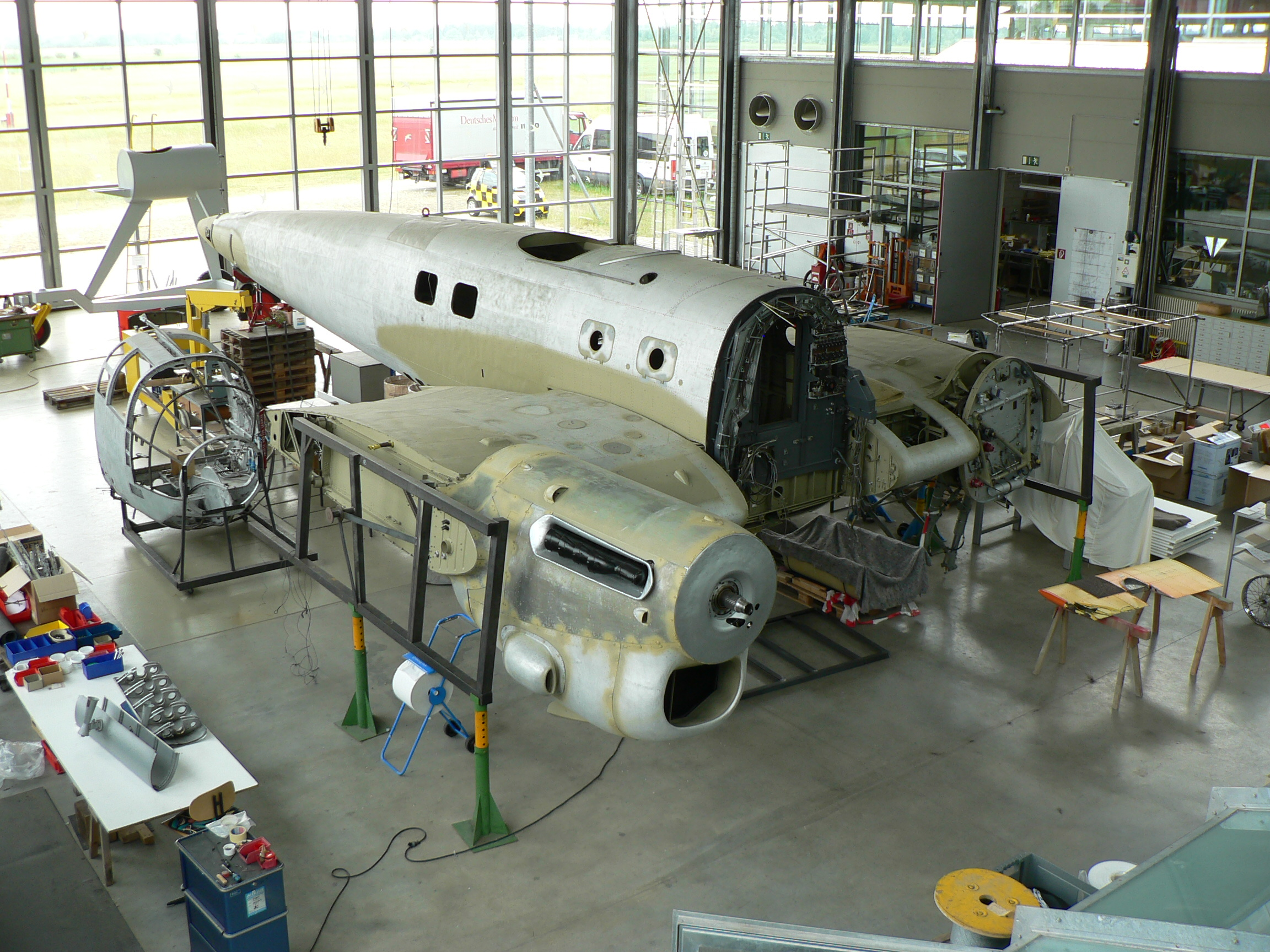 Spanish CASA 2.111(He 111) in workshop at D. Museum